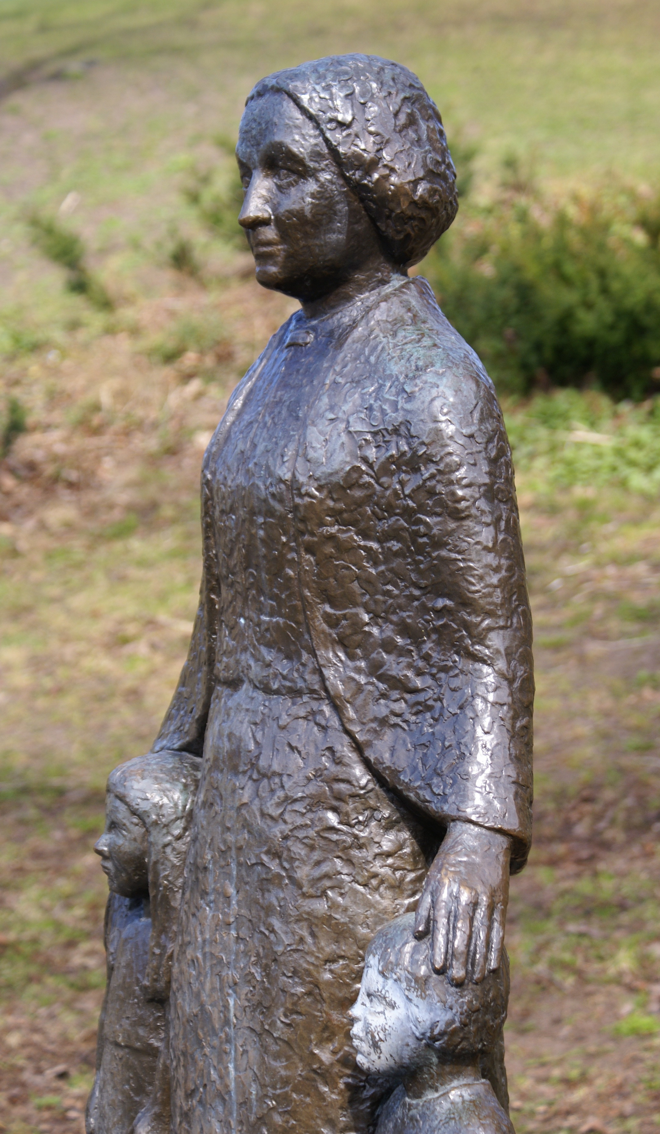 Elsa Borg as statue in Vita Bergen (the White Mountains)